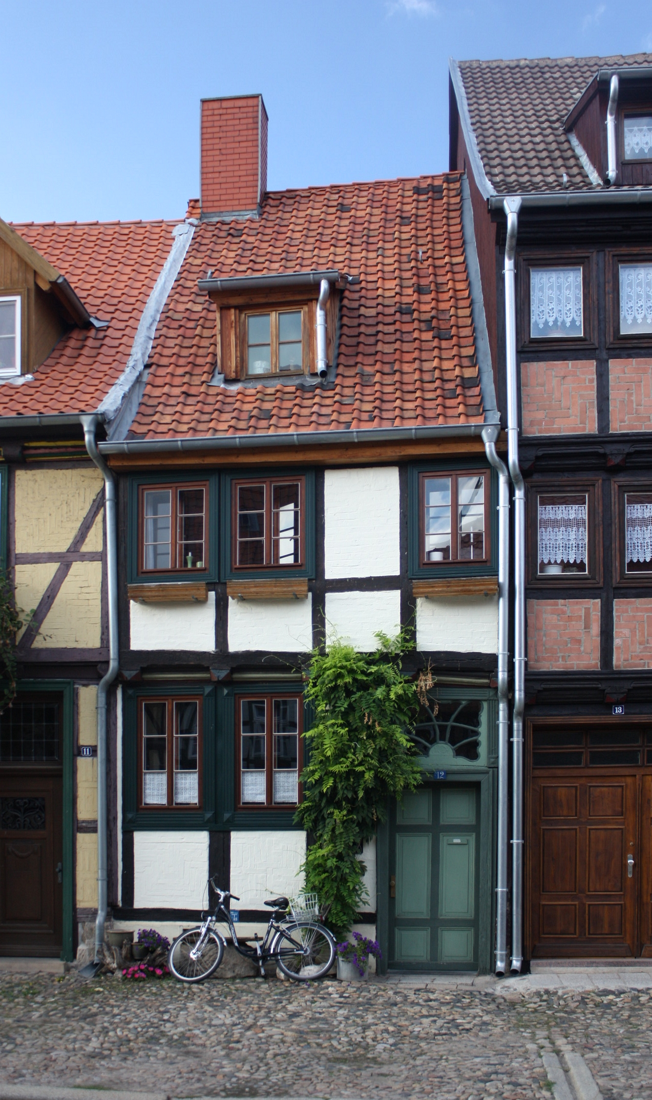 This is a photograph of an architectural monument.It is on the list of cultural monuments of Quedlinburg Augustinern 12 in Quedlinburg